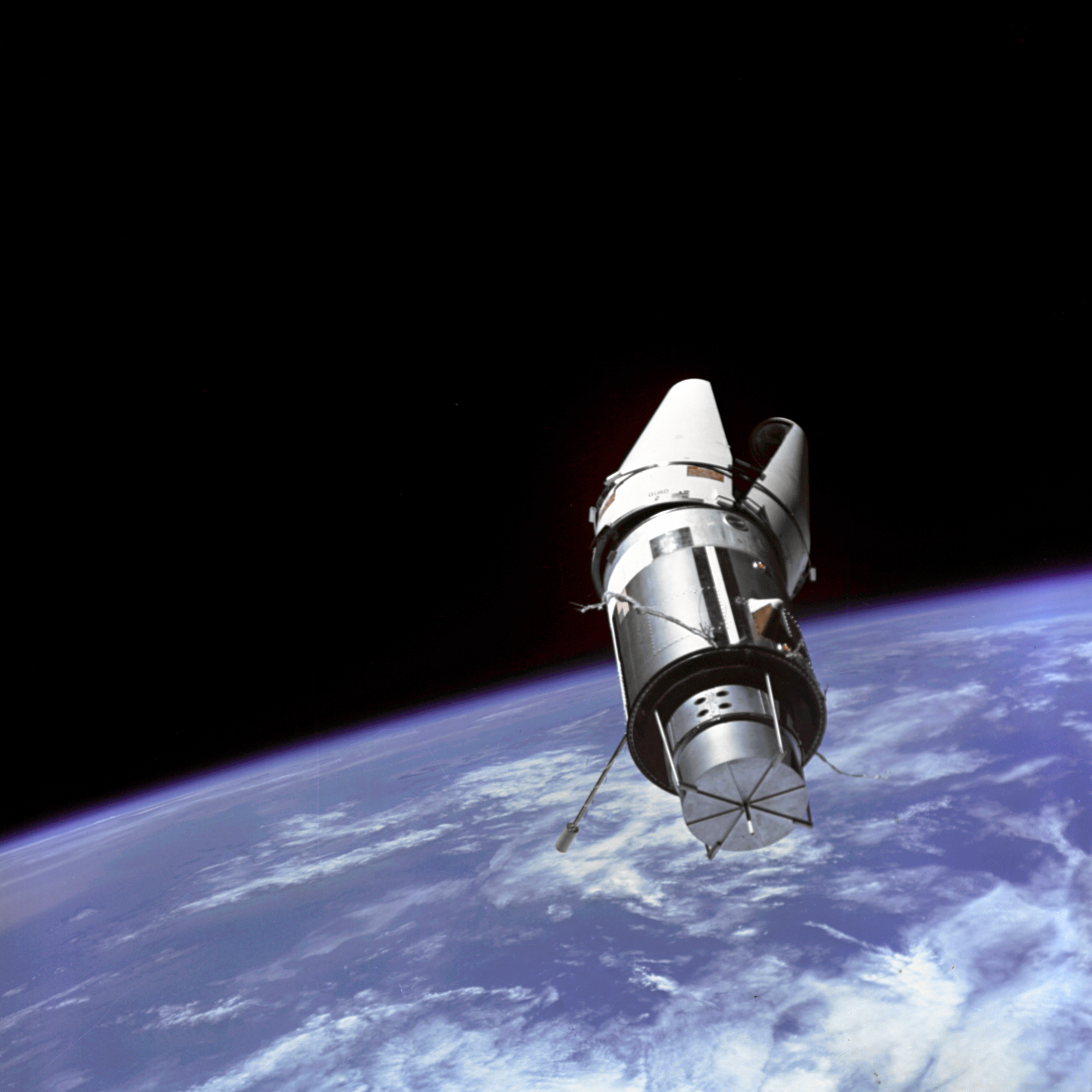 The Augmented Target Docking Adapter (ATDA) as seen from the Gemini 9 spacecraft. The docking adapter protective cover failed to fully separate on the ATDA and prevented the docking of the two spacecraft. The ATDA was described by the Gemini 9 crew as an "angry alligator."